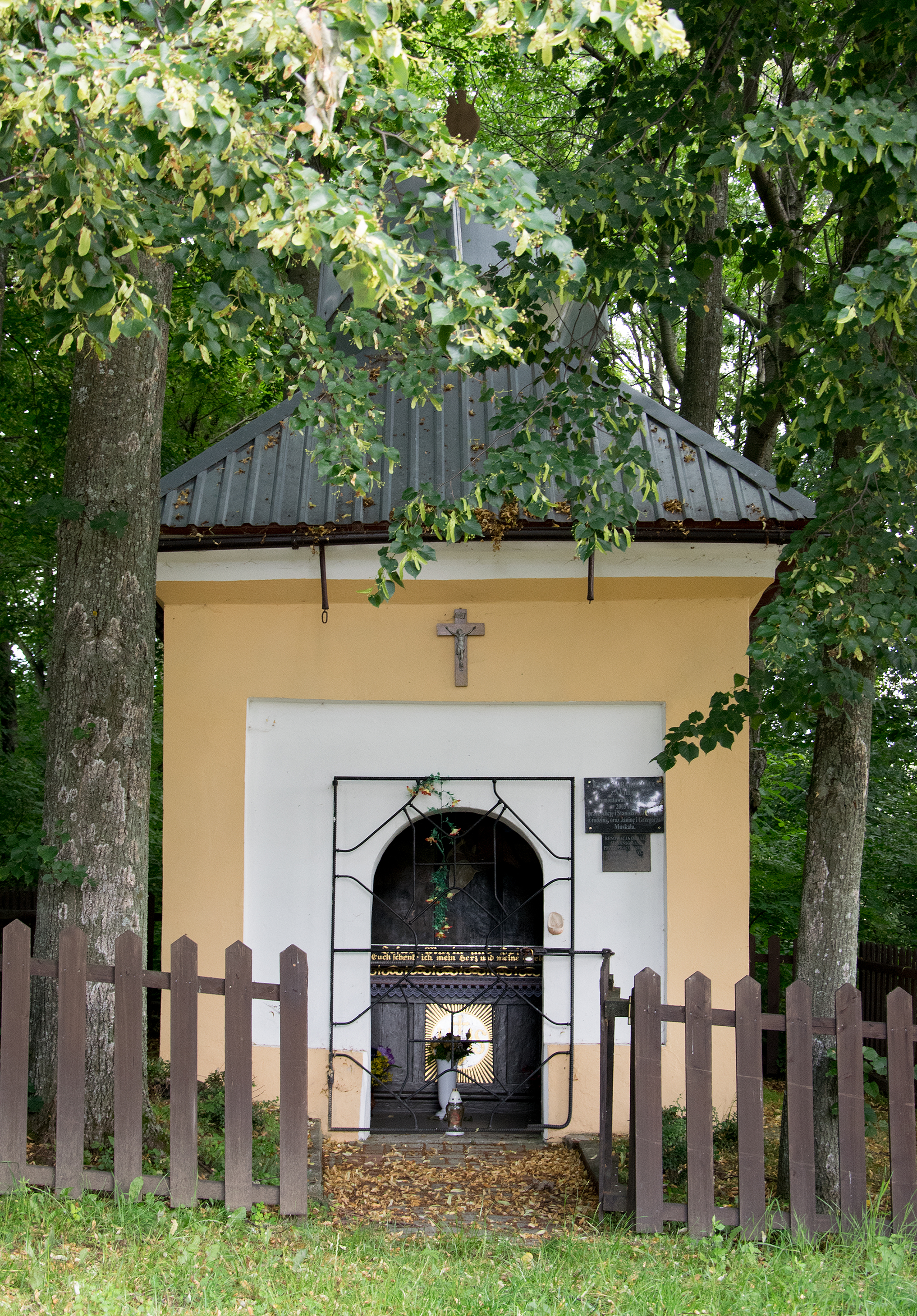 Chapel in Rogówek